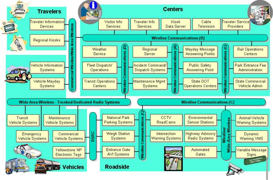 Greater Yellowstone Rural ITS Architecture Interconnect Diagram